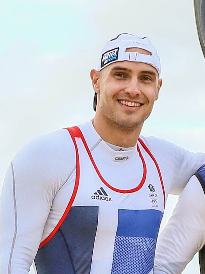 Liam Heath in 2013 - image cropped to focus on person